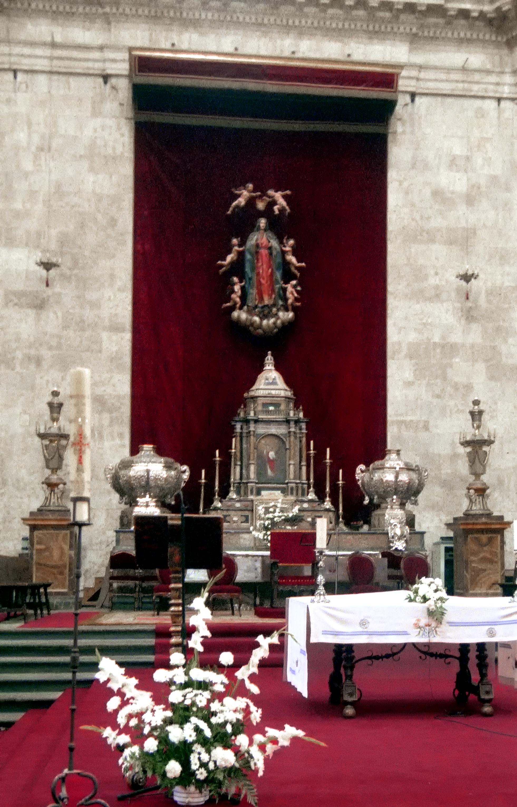 Main altar in Salamanca Cathedral